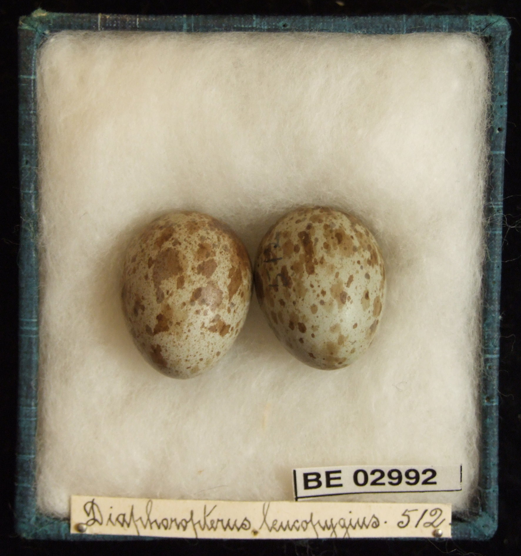 Eggs of extinct Norfolk long-tailed Triller (L. leucopyga leucopyga), a specimen from H.L. White Collection (Museums Victoria), collected 1909